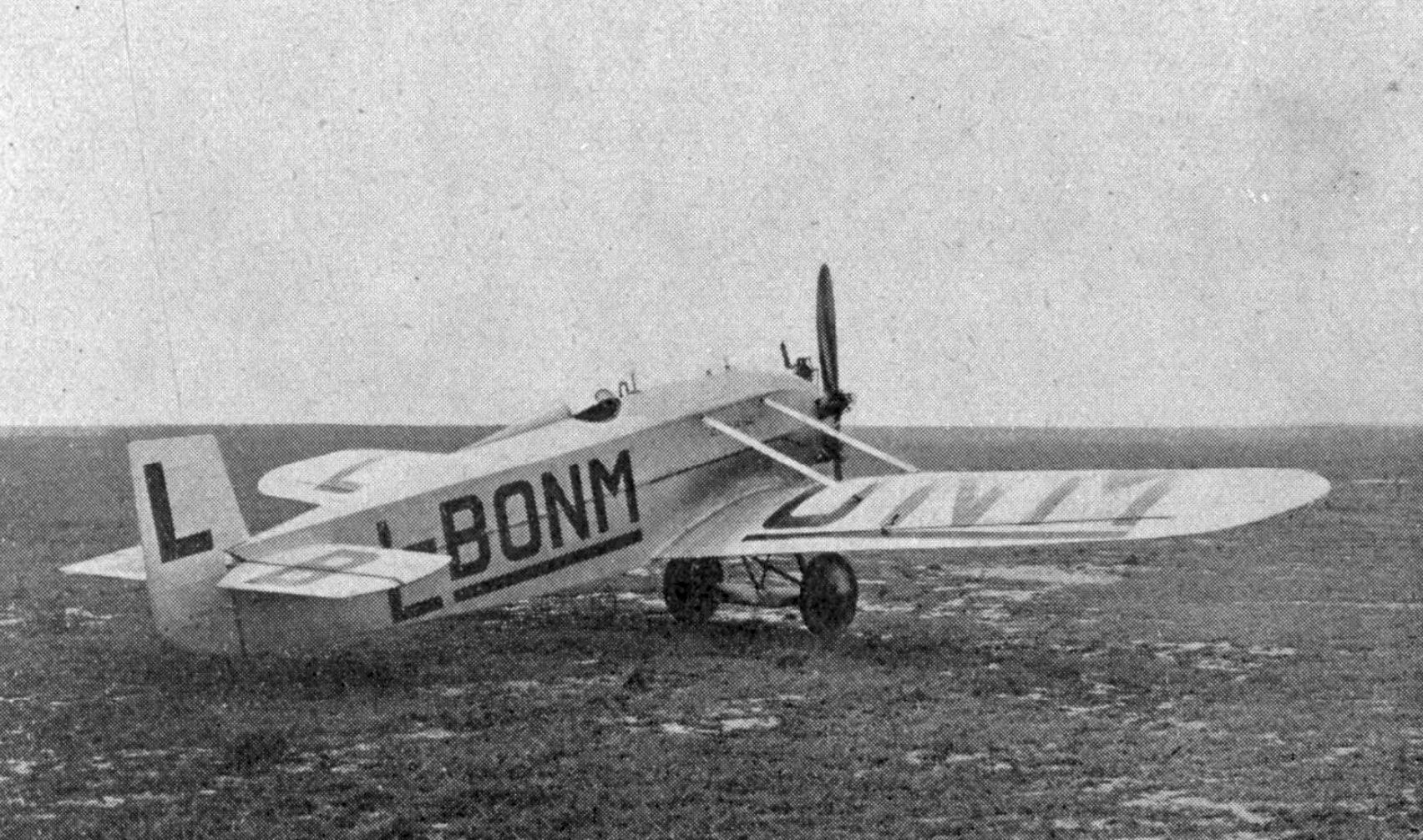 Avia BH-11 photo from L'Aéronautique February,1928